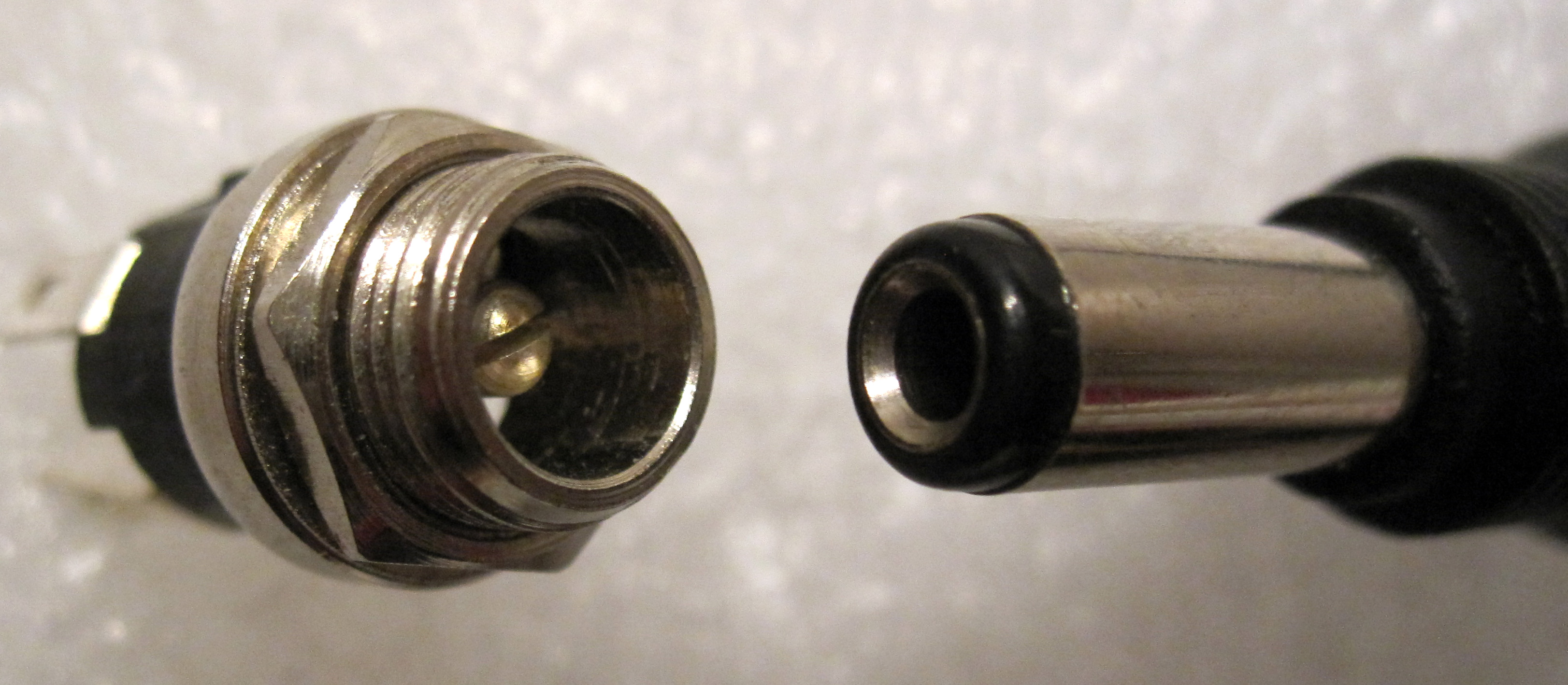 Coaxial power connector, male and female. The male connector has an external diameter of 5.5 mm and an internal diameter of 2.5 mm. This is one of the most common Size.